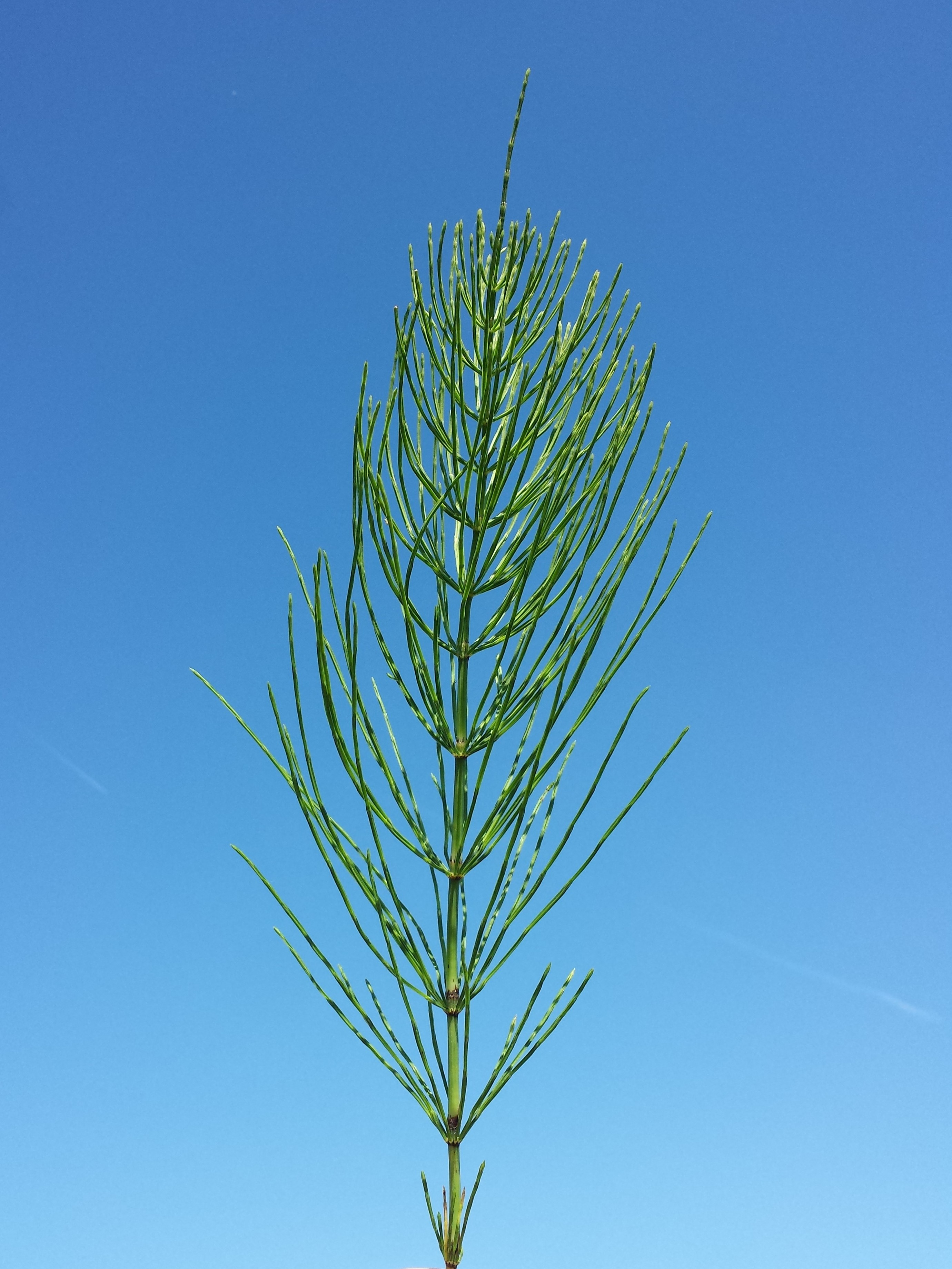 Habitus (sterile shoot) Taxonym: Equisetum arvense subsp. arvense ss Fischer et al. EfÖLS 2008 ISBN 978-3-85474-187-9 Location: Jedlersdorf rail station, Vienna-Floridsdorf - ca. 160 m a.s.l. Habitat: ballast